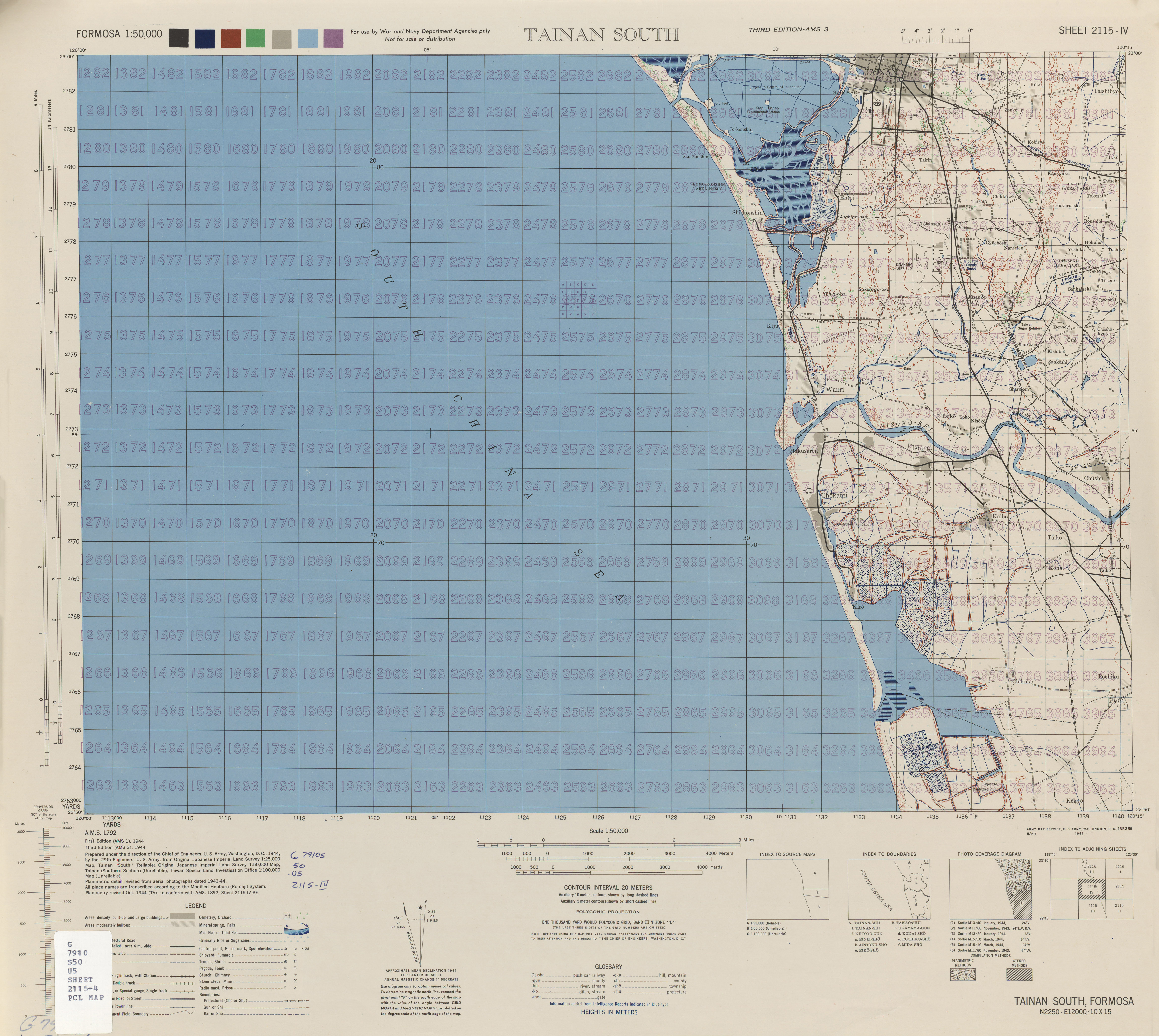 Map from Formosa (Taiwan) 1:50,000 AMS Series L792